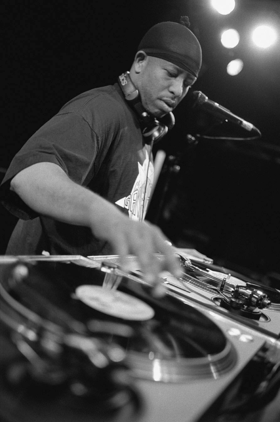 Dj Premier with Gangstarr in Hamburg/Germany 1999